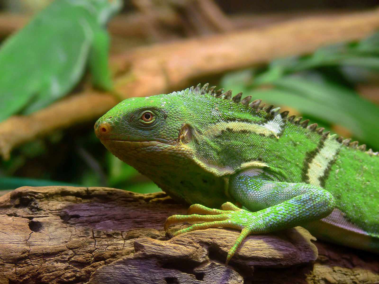 A Fiji Crested iguana, Brachylophus vitiensis, Melbourne zoo.